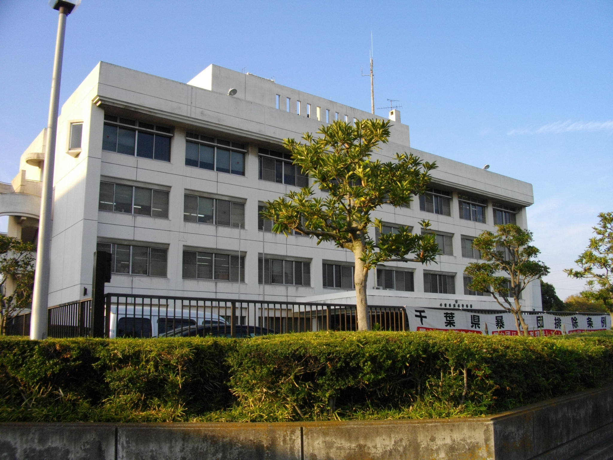 Urayasu Police Station